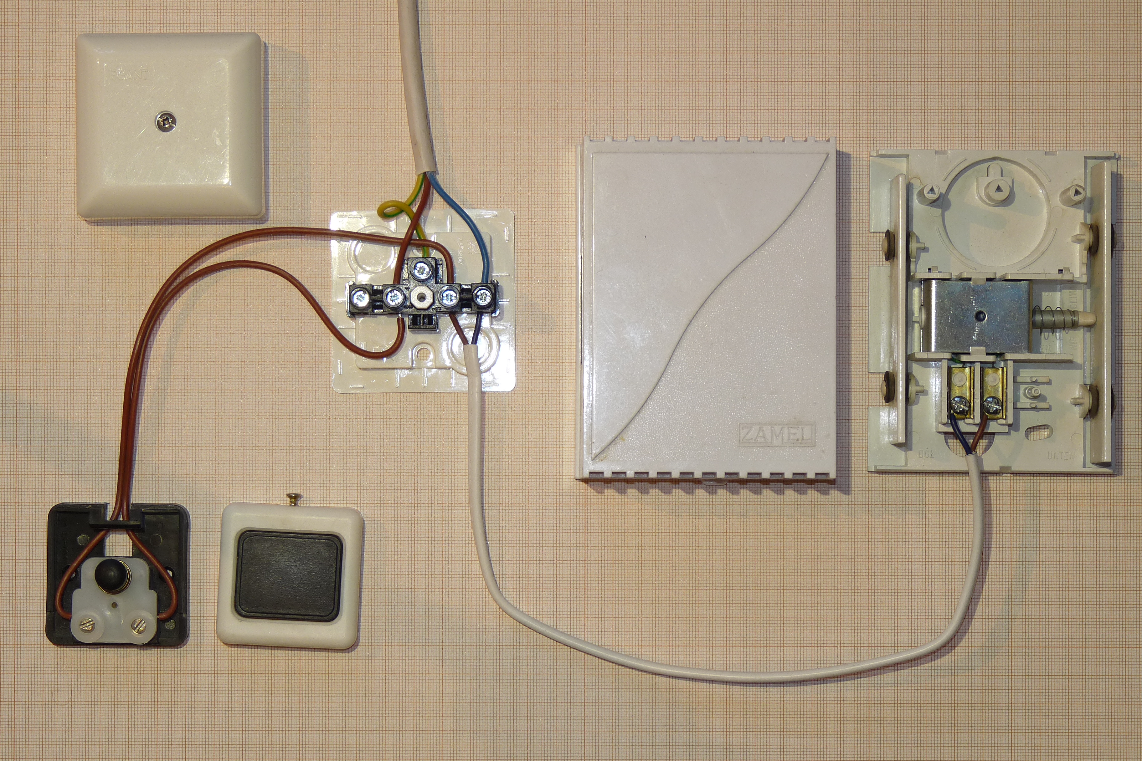 how to wire electric doorbell